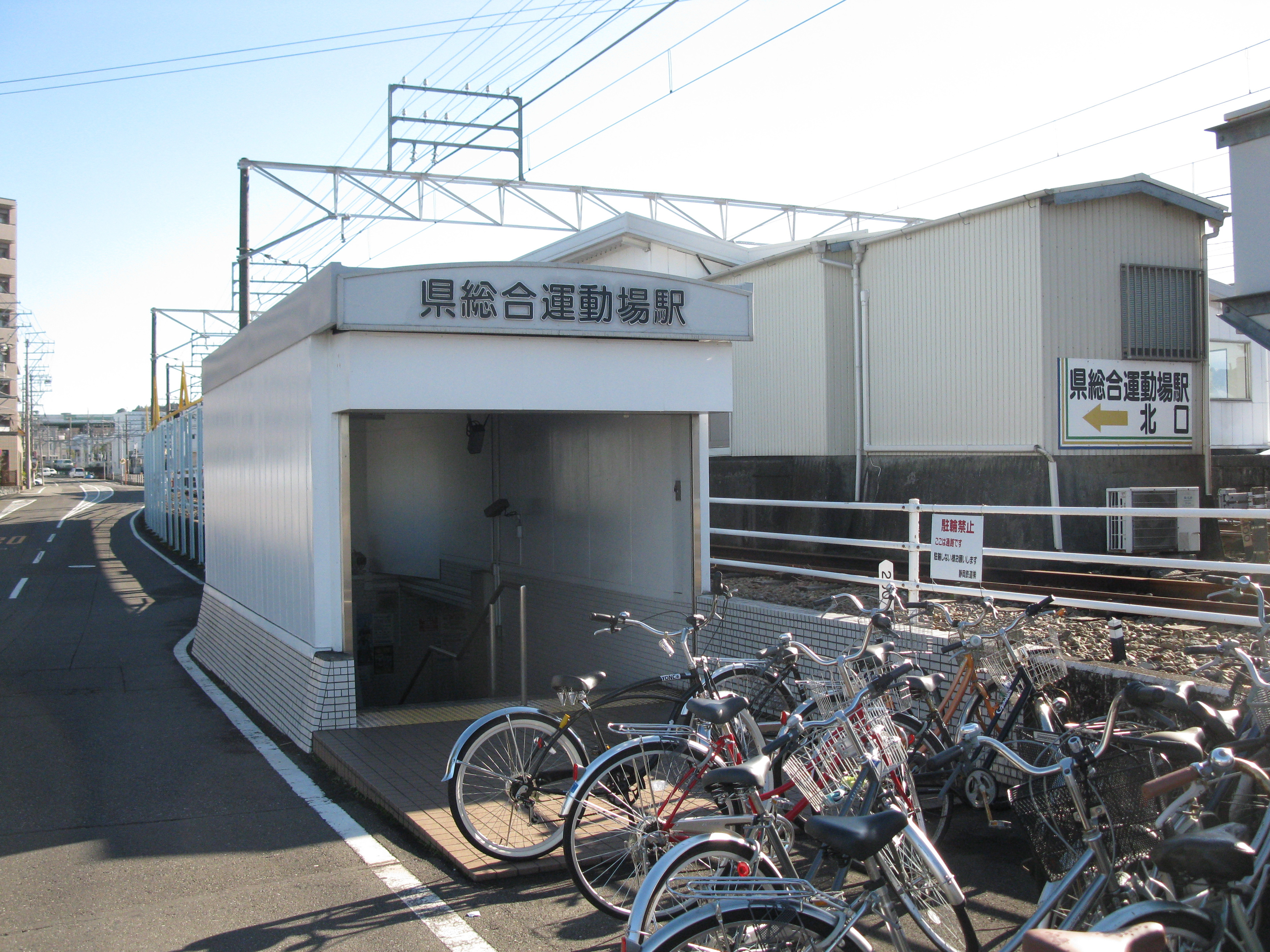 The north entrance to Ken-Sōgō Undōjō Station on the Shizuoka Railway Shizuoka-Shimizu Line in Suruga-ku, Shizuoka city, Japan